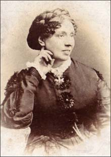 Picture from Emma Hardinge Britten (1823–1899) in the mid 1860s